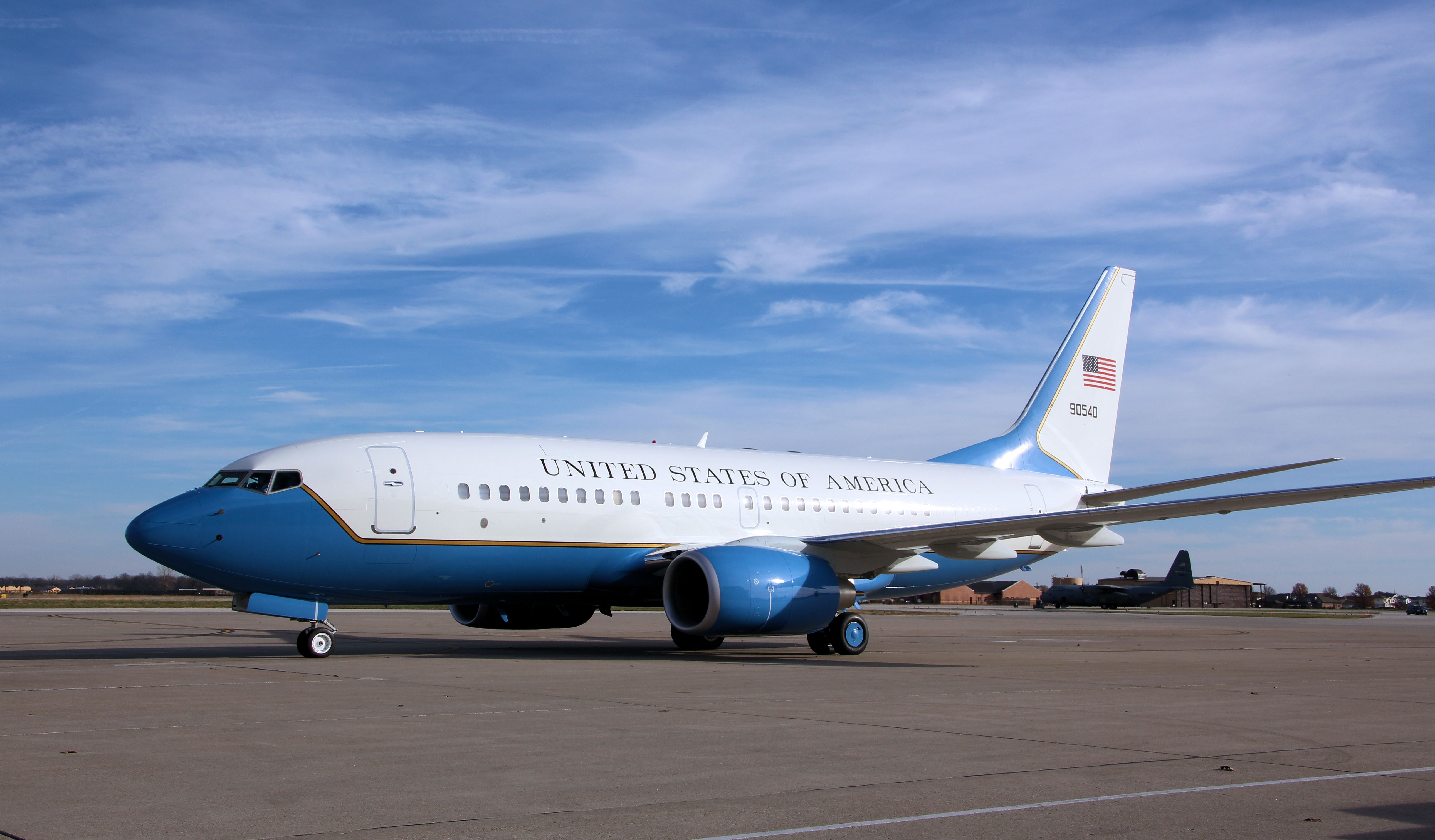 A gleaming new C-40C taxis up to the Scott AFB base operations on Nov. 18, 2011. This is the fourth C-40C assigned to the 932nd Airlift Wing. The aircraft was piloted by unit commanders from the 73rd and 54th Airlift Squadrons, respectively. (U.S. Air Force photo/Tech. Sgt. Dan Oliver)